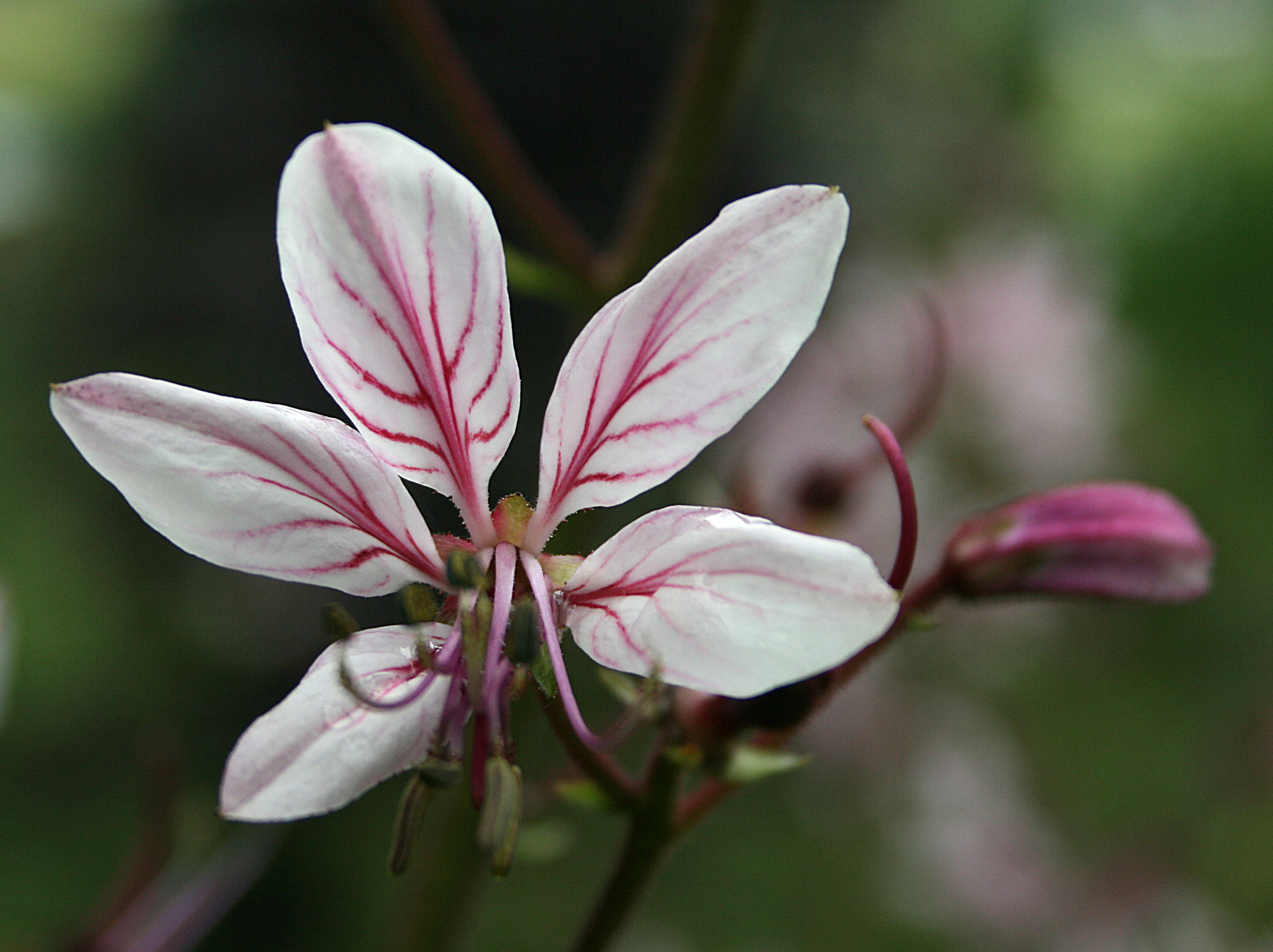 Fraxinella